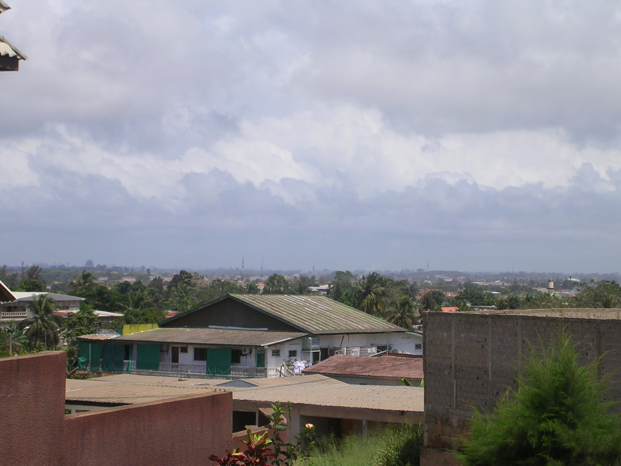 View of the city from the hill.